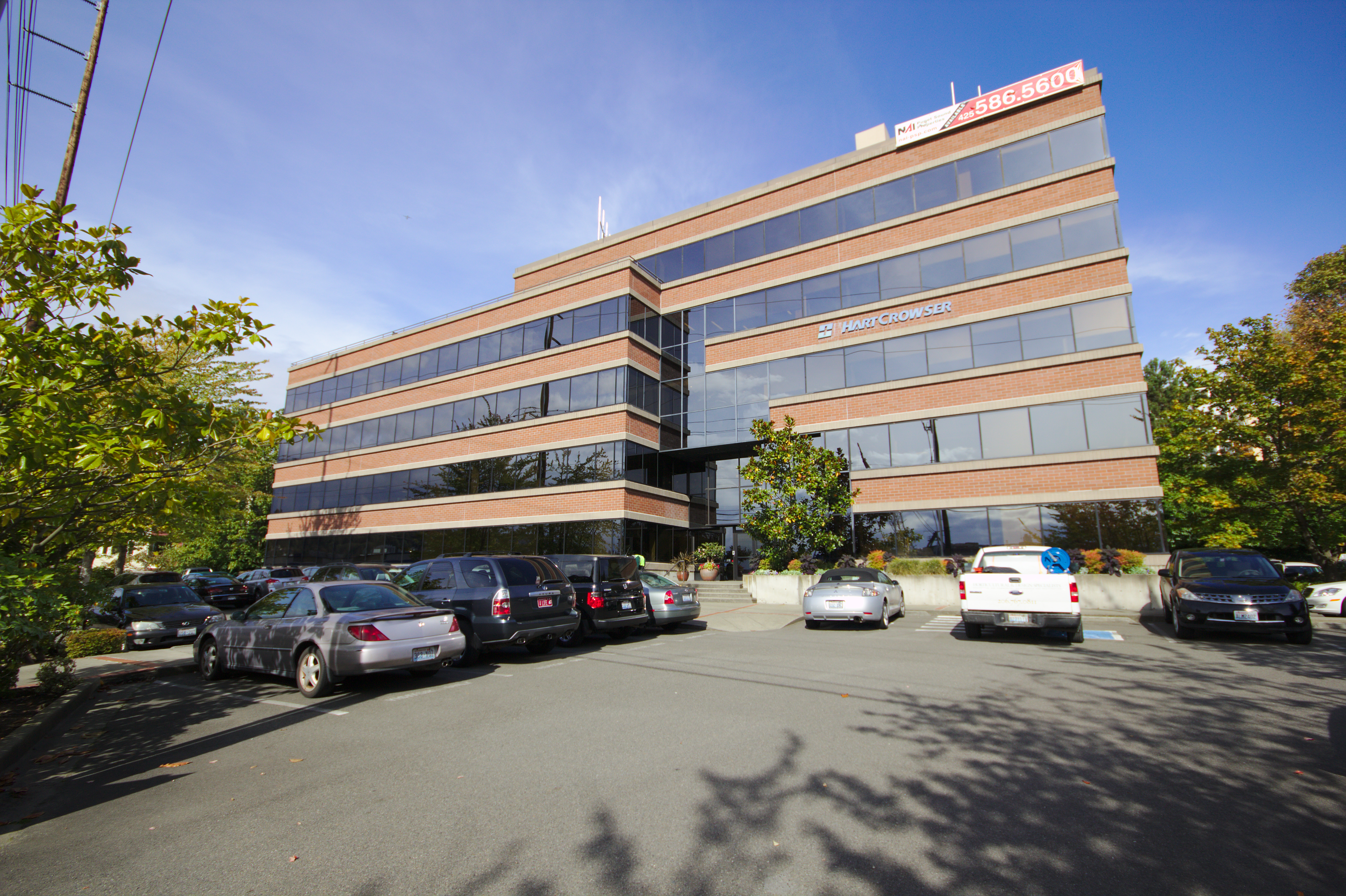 Office building at 1910 Fairview Ave E Seattle, Washington